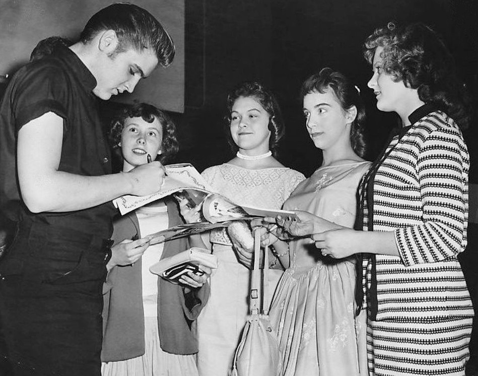 Photo of Elvis Presley signing autographs for some young fans in Minneapolis Minnesota. He was in the city for a personal appearance.